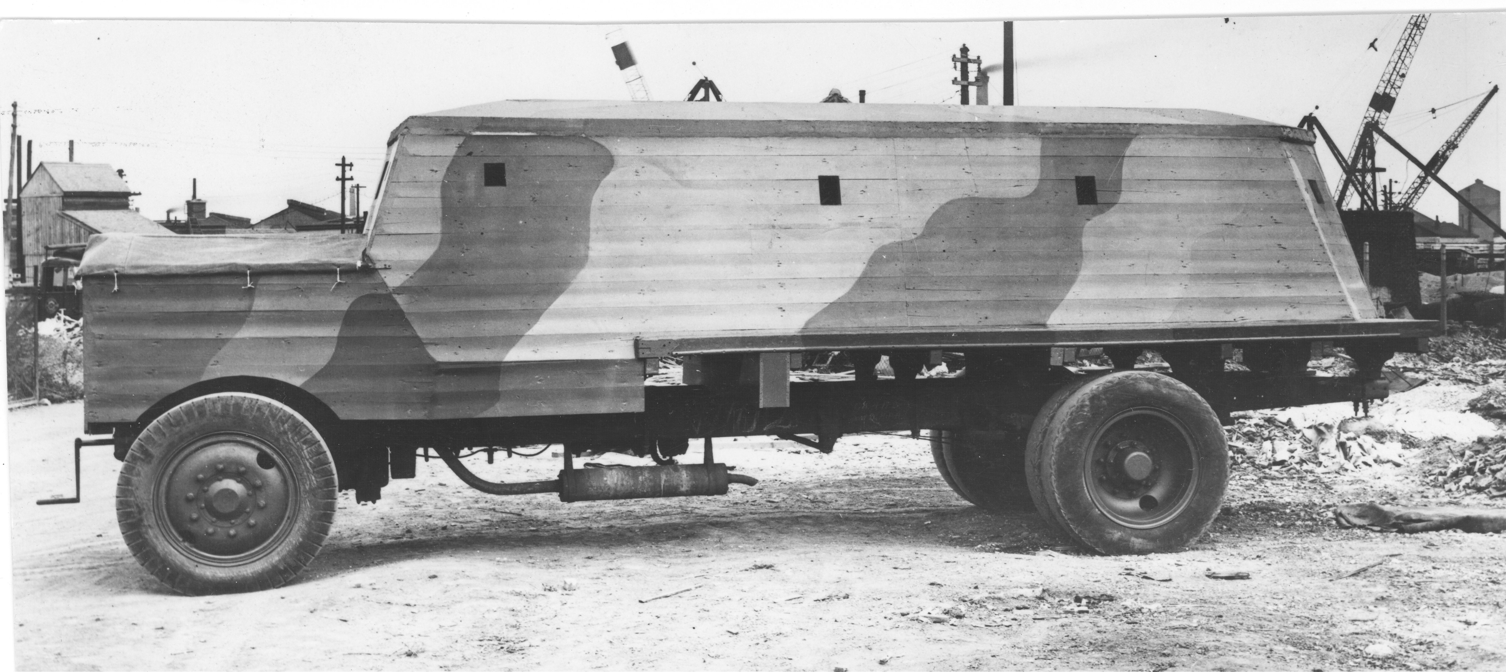 Fully enclosed Bison